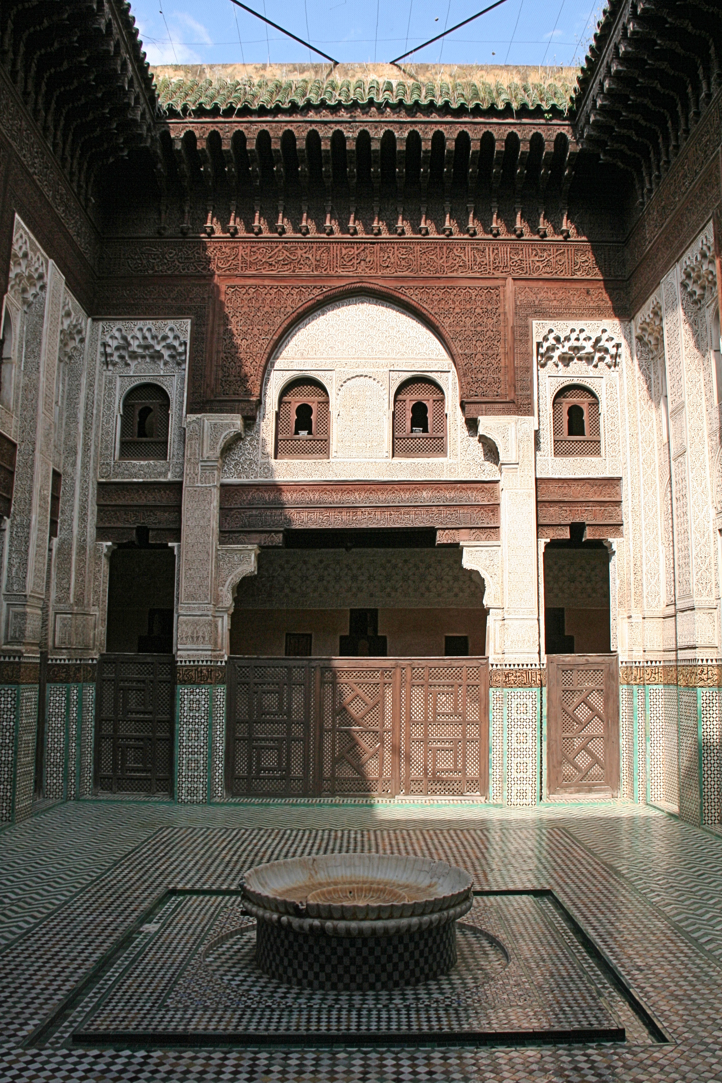 Madrassa Bou Inania 14th century